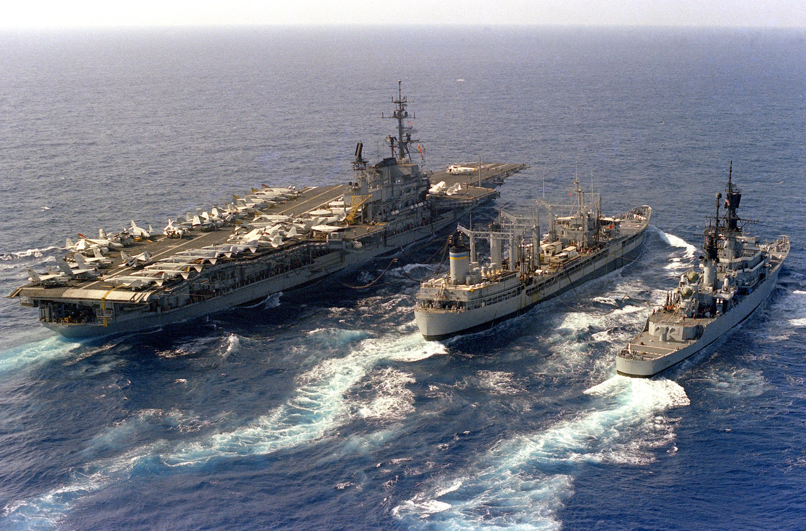 The U.S. Navy aircraft carrier USS Midway (CV-41) and the guided missile cruiser USS England (CG-22) steam alongside the oiler USNS Navasota (T-AO-106) during underway replenishment operations in the Pacific Ocean on 7 December 1983. Midway, with assigned Carrier Air Wing 5 (CVW-5), was deployed to the Western Pacific from 25 October to 11 December 1983.